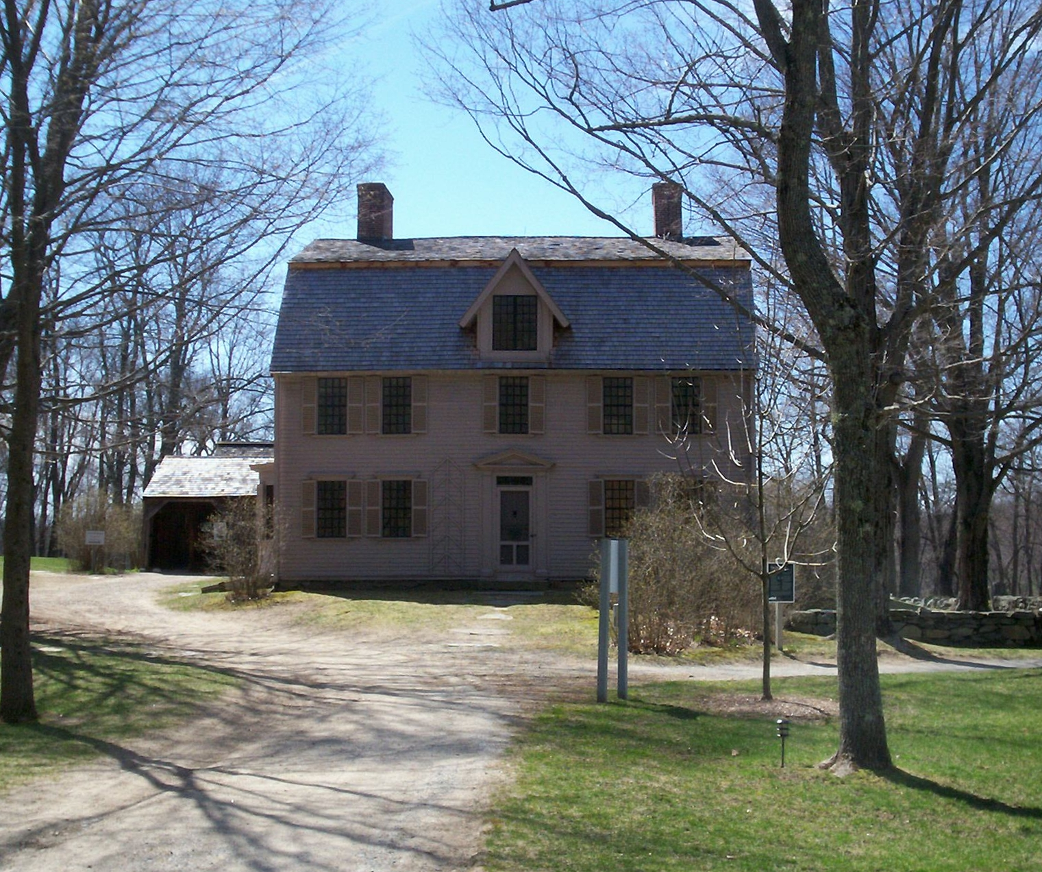 The Old Manse (former home of Rev. William Emerson, Ralph Waldo Emerson, and Nathaniel Hawthorne) in Concord, Massachusetts.